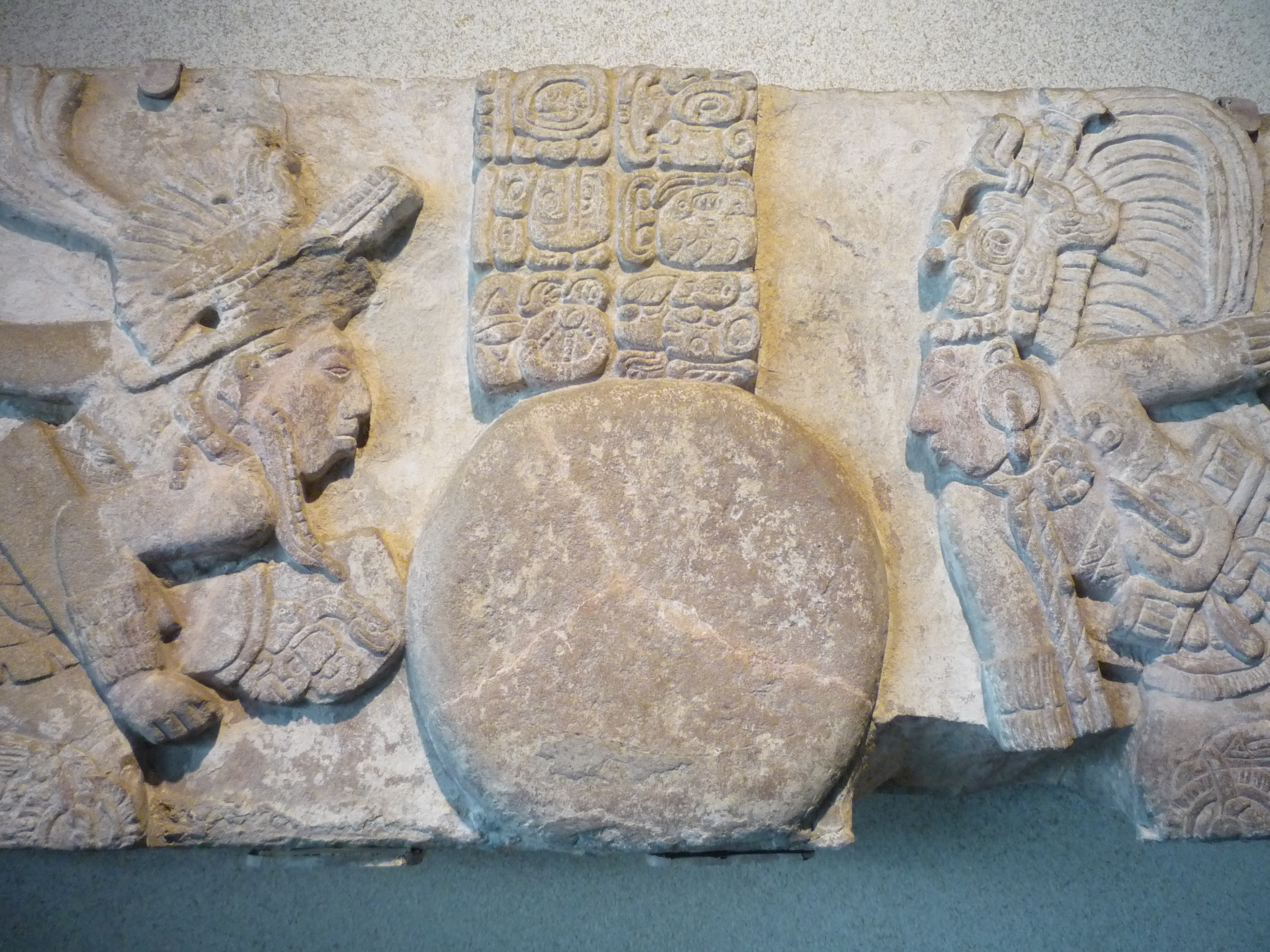 Maya Room. National Museum of Anthropology (Mexico)